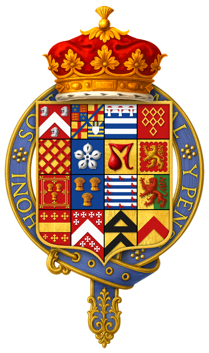 Quartered arms of George Monck, 1st Duke of Albemarle, KG Quarters: 1st: Gules, a chevron between three lion's heads erased argent (for Monck); 2nd (quarterly of 4): 1: Royal Arms of England; 2 & 3: Or a cross gules; 4: Mortimer; over-all a baton sinister azure (Arms of Arthur Plantagenet, 1st Viscount Lisle); 3rd: Barry of six argent and azure in chief three torteaux (Grey, Viscount Lisle); 4th: Gules, a lion rampant within a bordure engrailed or (Talbot, Viscount Lisle)